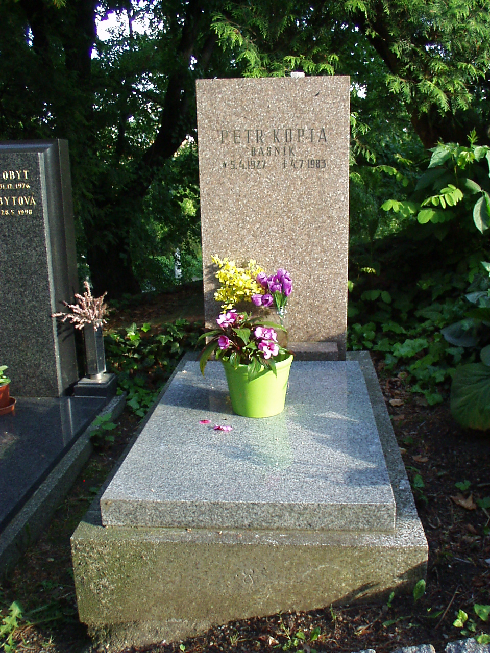 grave of Petr Kopta - Šárka cemetery in Prague